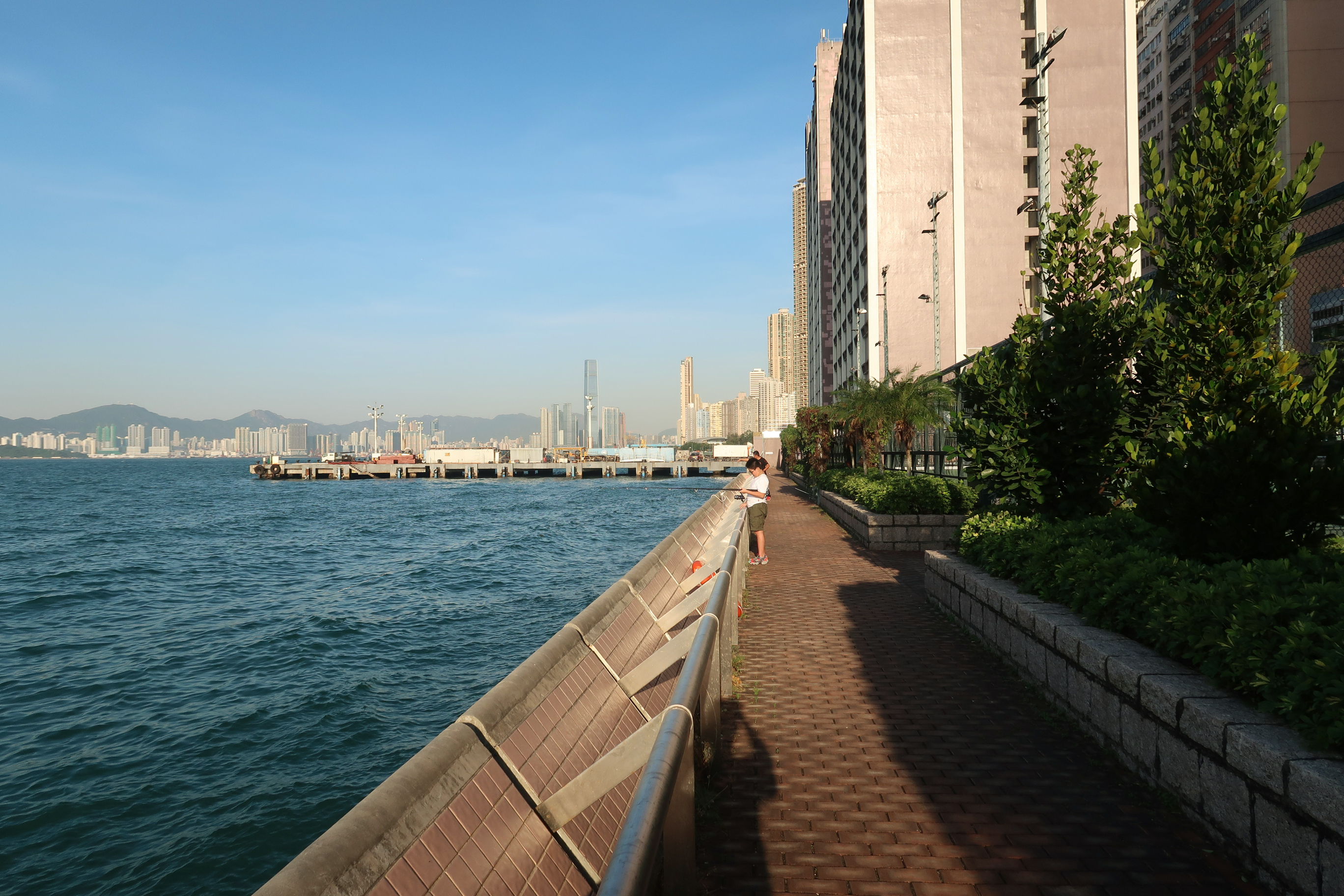 Kennedy Town Temporary Recreation Ground